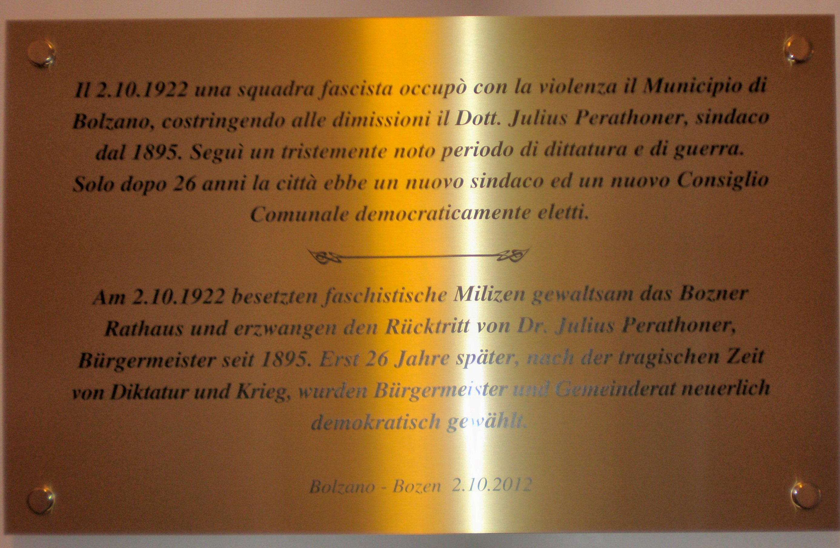 Commemorative plaque of the fascist assault during the so called March on Bozen-Bolzano 1922 Oct. 2, attached by the Town's Council on the 2nd of Oct. 2012